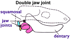 Mammaliform with both types of jaw joint: quadrate-articular and squamosal-dentary.